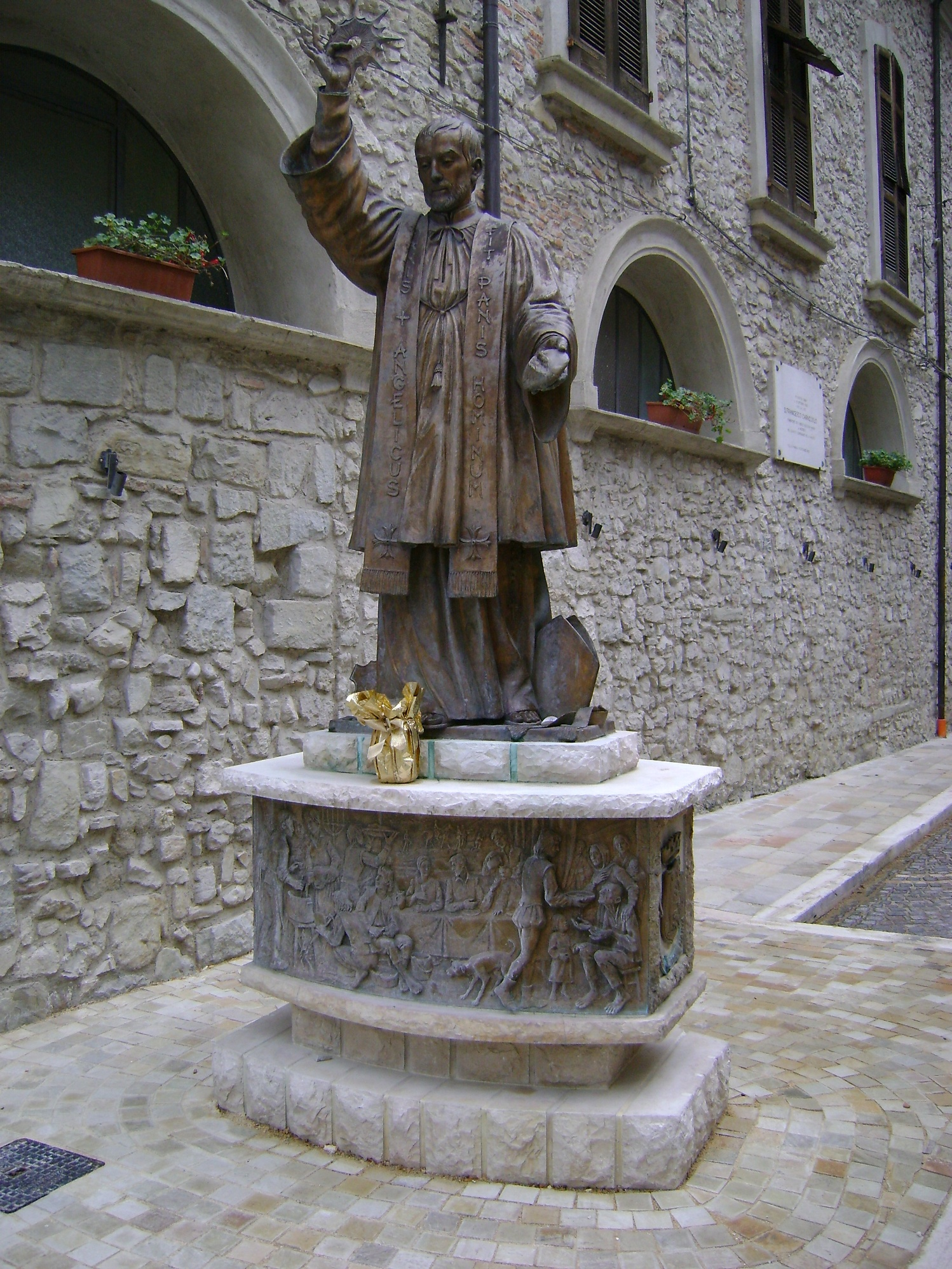 The bronze statue of St. Francis Caracciolo, beside the homonymous church in Villa Santa Maria, province of Chieti, Abruzzo